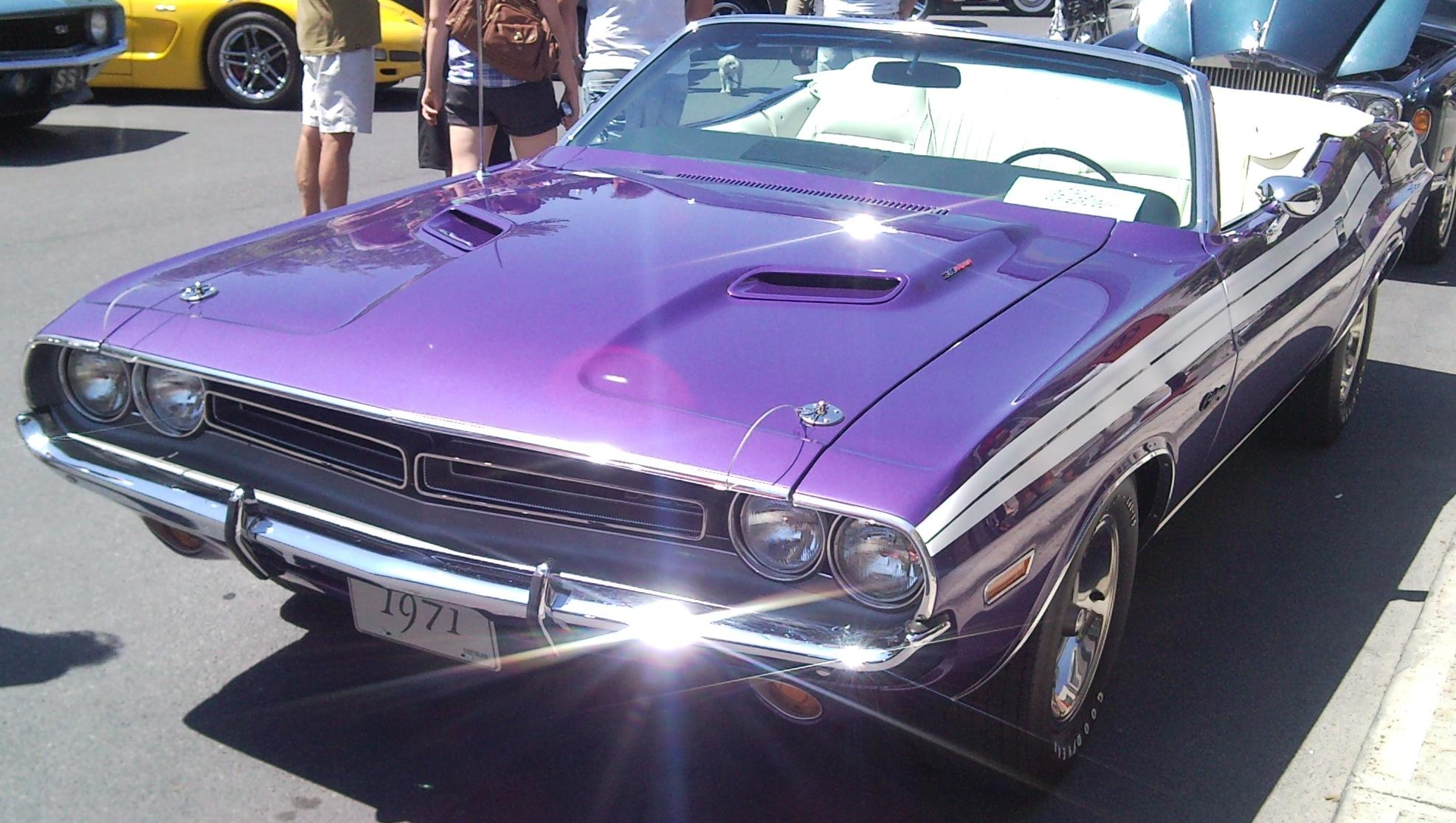 1971 Dodge Challenger photographed in St. Lambert, Quebec, Canada at Auto classique VAQ St-Lambert 2012.